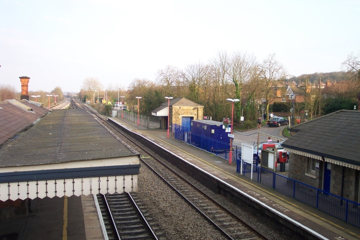 Tilehurst railway station fast line platforms, from the station footbridge. Looking towards central Reading, the suburb of Tilehurst climbs the hill to the right, whilst the River Thames is to the left. For more information see the Wikipedia article Tilehurst railway station.